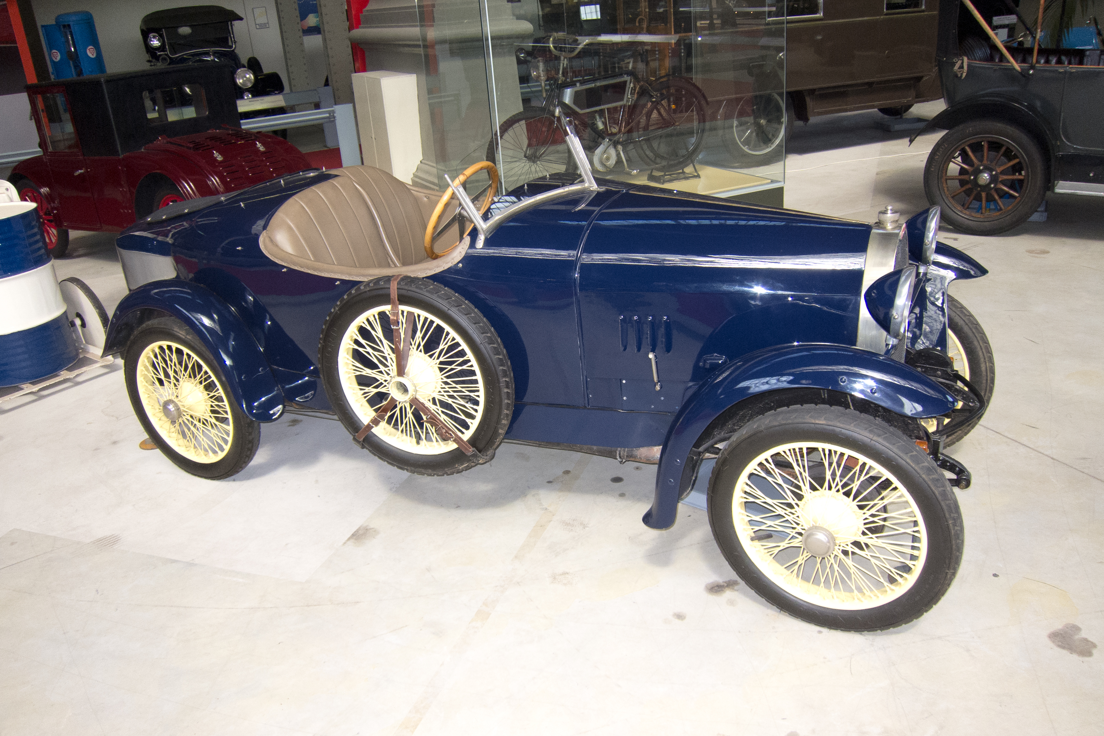 1921 Bugatti type 23 Brescia at the Autoworld Museum in Brussels, Belgium